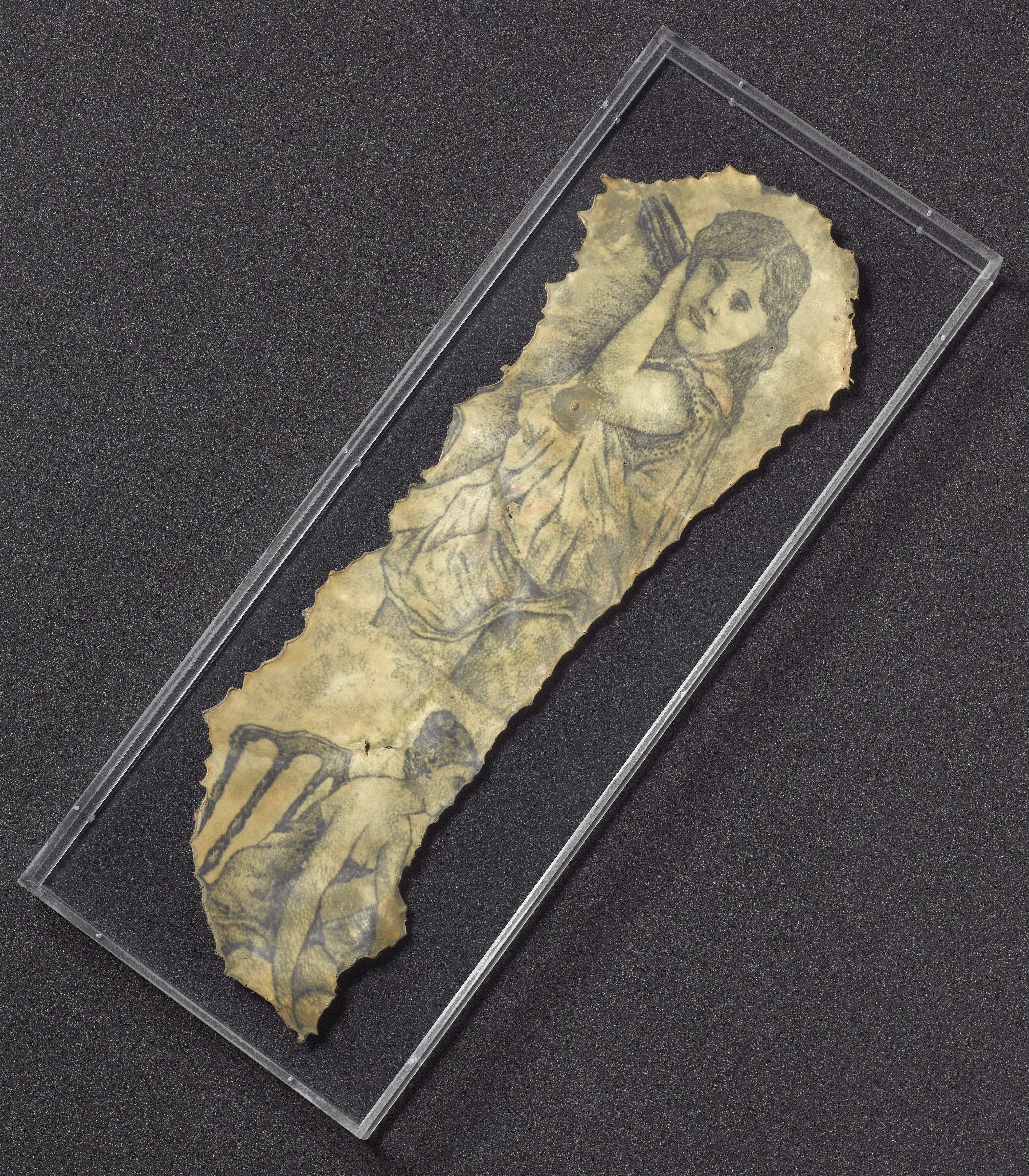 Tattooed with the images of two women with bare legs and arms, this piece of human skin was purchased by one of Henry Wellcome’s collecting agents, Captain Johnston-Saint, in June 1929 from Dr Villette, a Parisian surgeon. Villette worked in military hospitals and collected and preserved hundreds of samples from the autopsies of French soldiers. In the late 1800s, tattoos were often seen as markers of criminal tendencies, or ‘primitiveness’. Medical men tried to interpret common images and symbols. Tattoos were also used as a tool for identification, a practice that continues today. maker: Unknown maker Place made: France Medical Photographic Library Keywords: tattoo; Criminology; human remains; post mortem